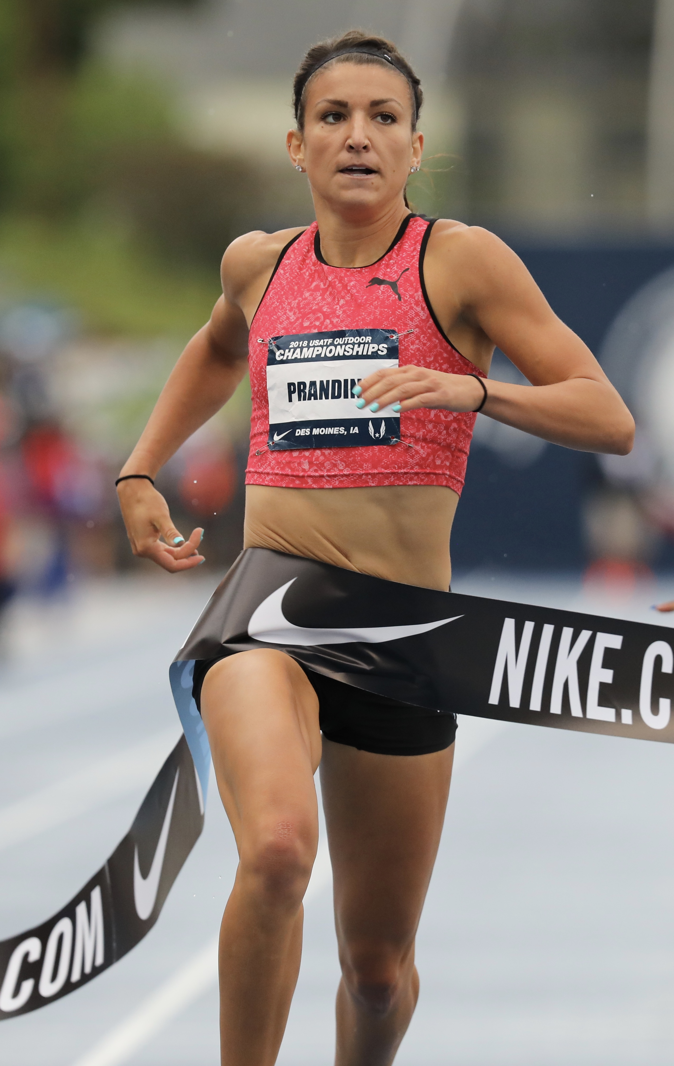 Jenna Prandini US track and field in 2018